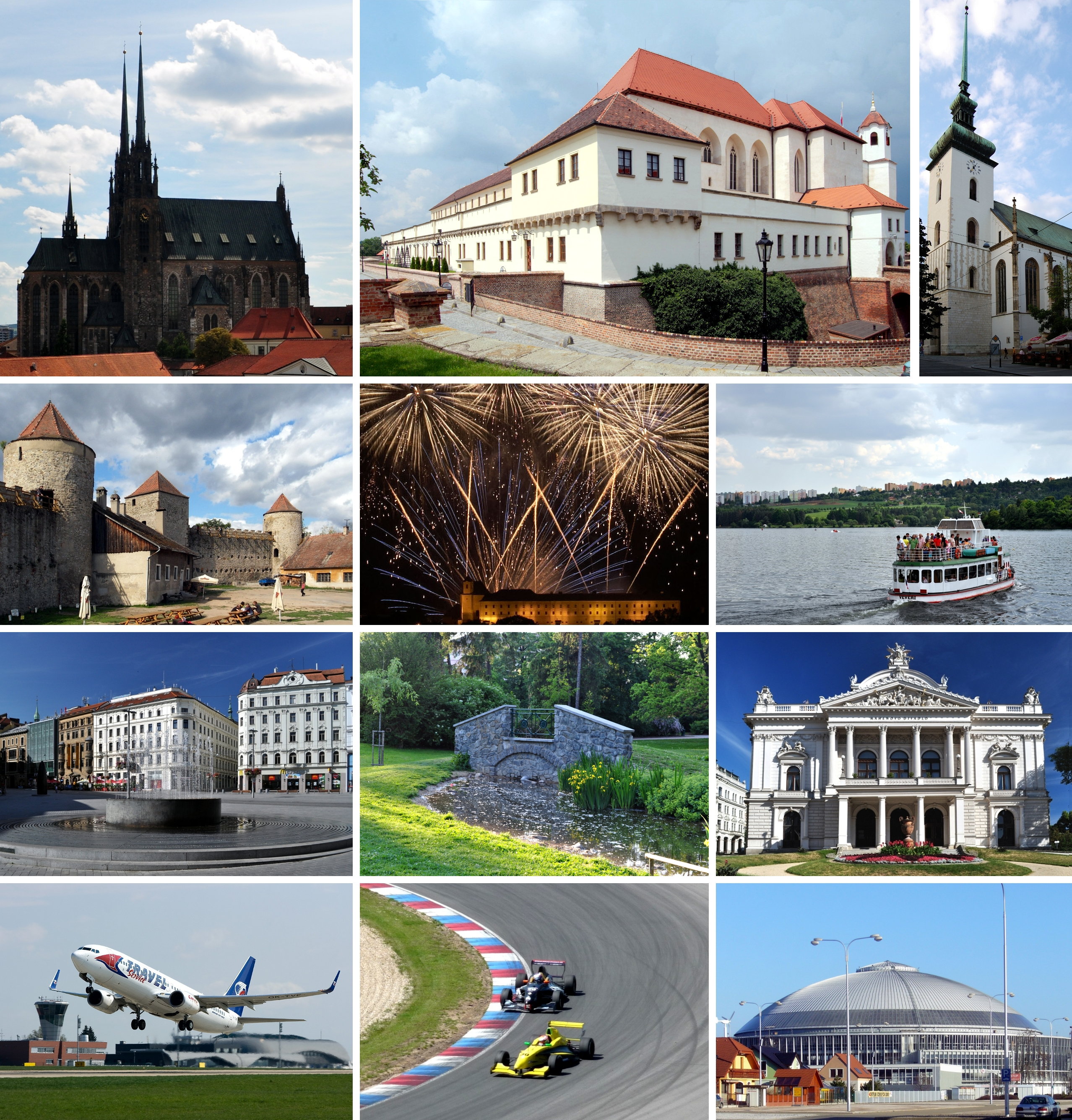 Brno city in Moravia, Czech republic, EU